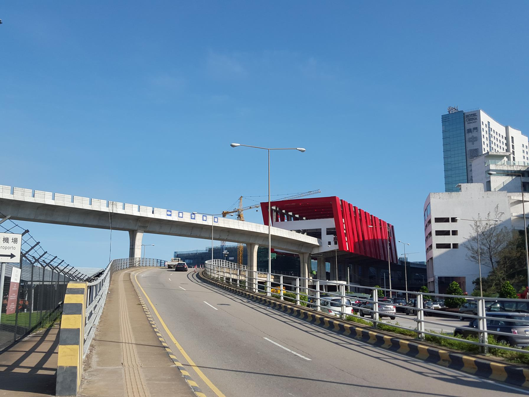 Airport Station, Macau LRT